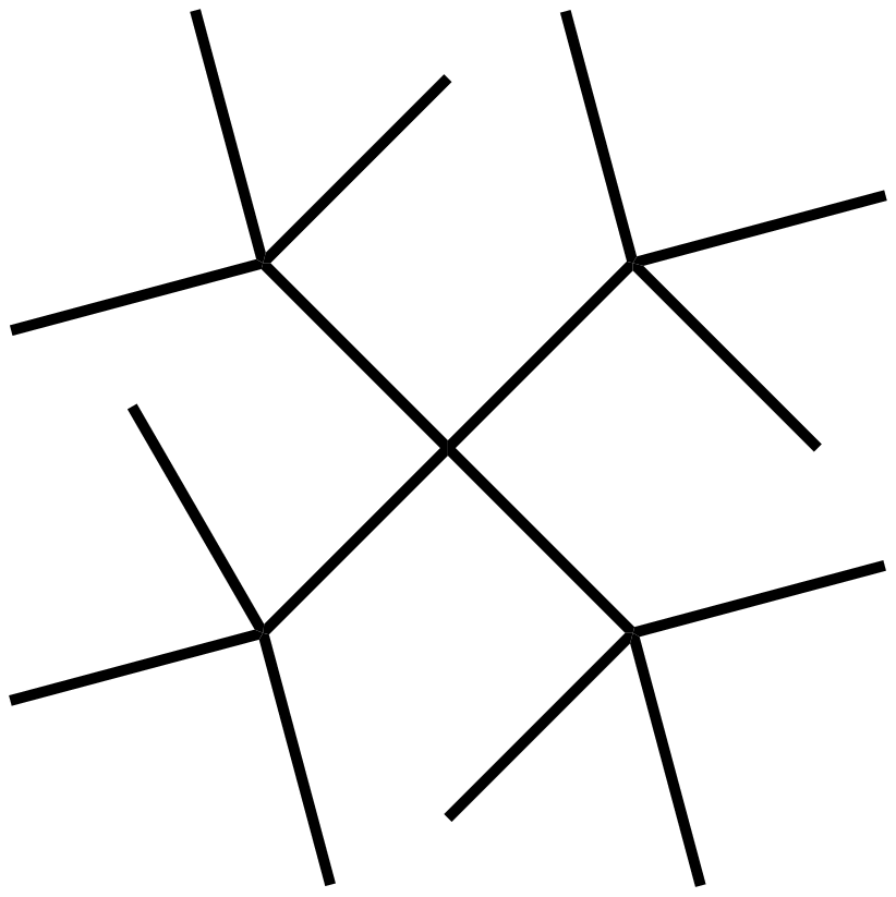 Chemical structure of tetra-tert-butylmethane (3,3-Di-tert-butyl-2,2,4,4-tetramethylpentane)